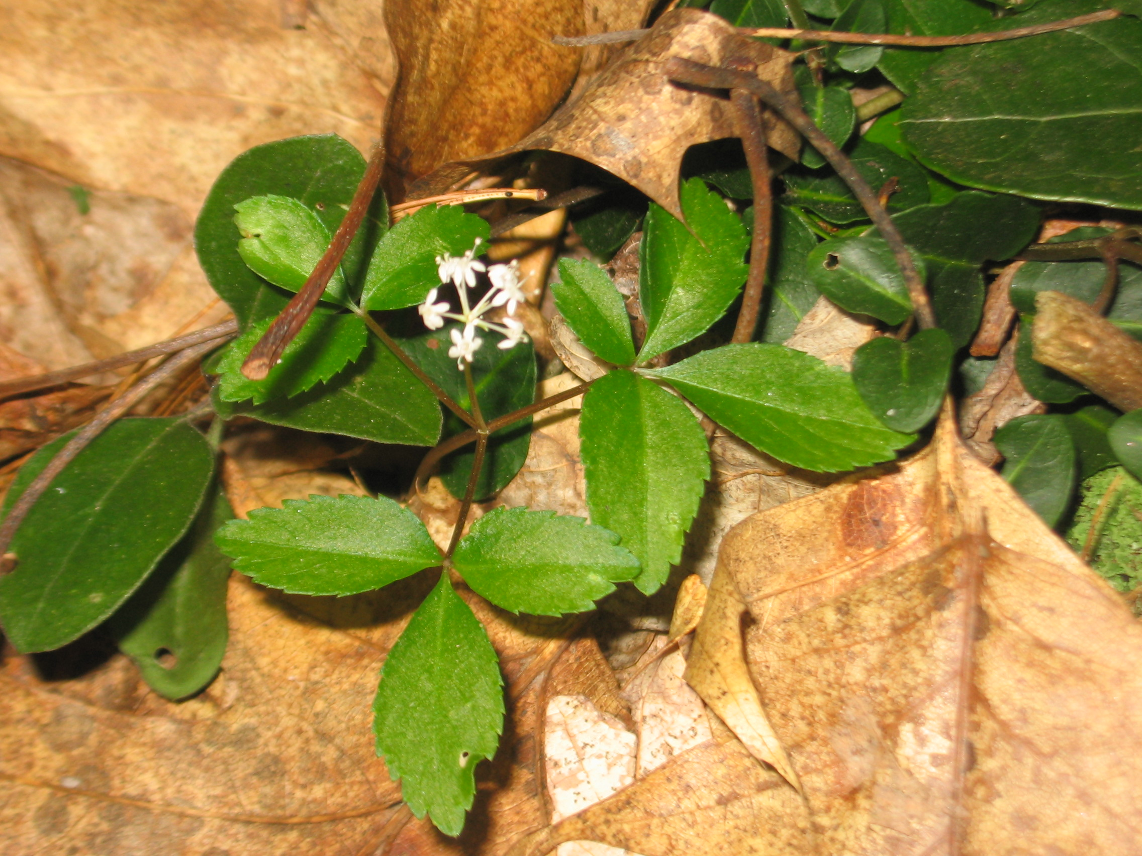 Photgraph of an unknown plant Panax trifolius. Similar to Virgin's bower, but not viney. Also, it was in bloom in May rather than in the mid- to late-summer.